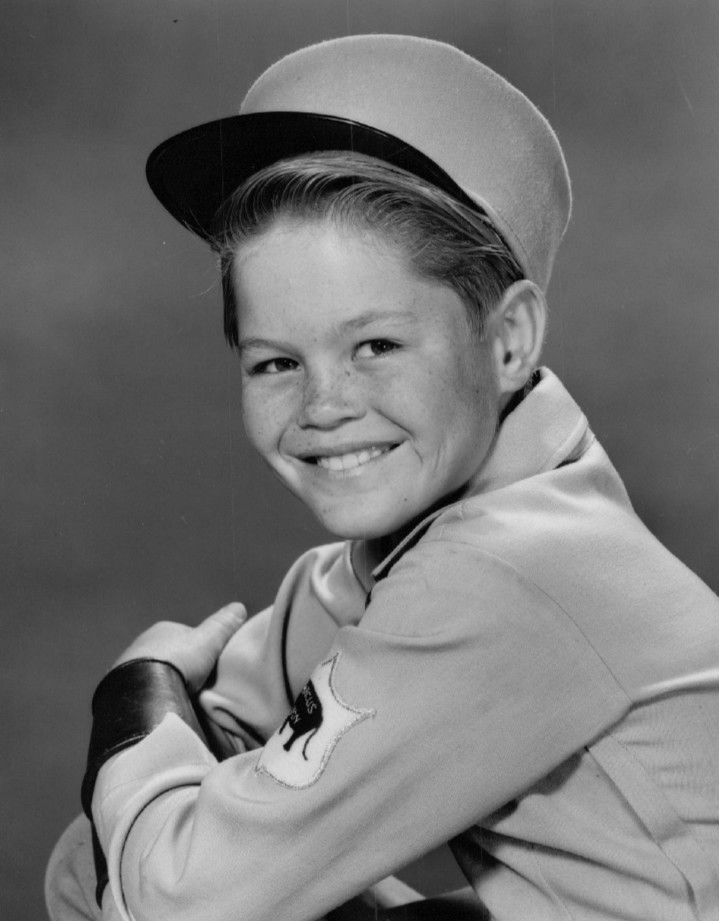 Photo of Micky Dolenz under the name Micky Braddock as Corky from the television program Circus Boy.